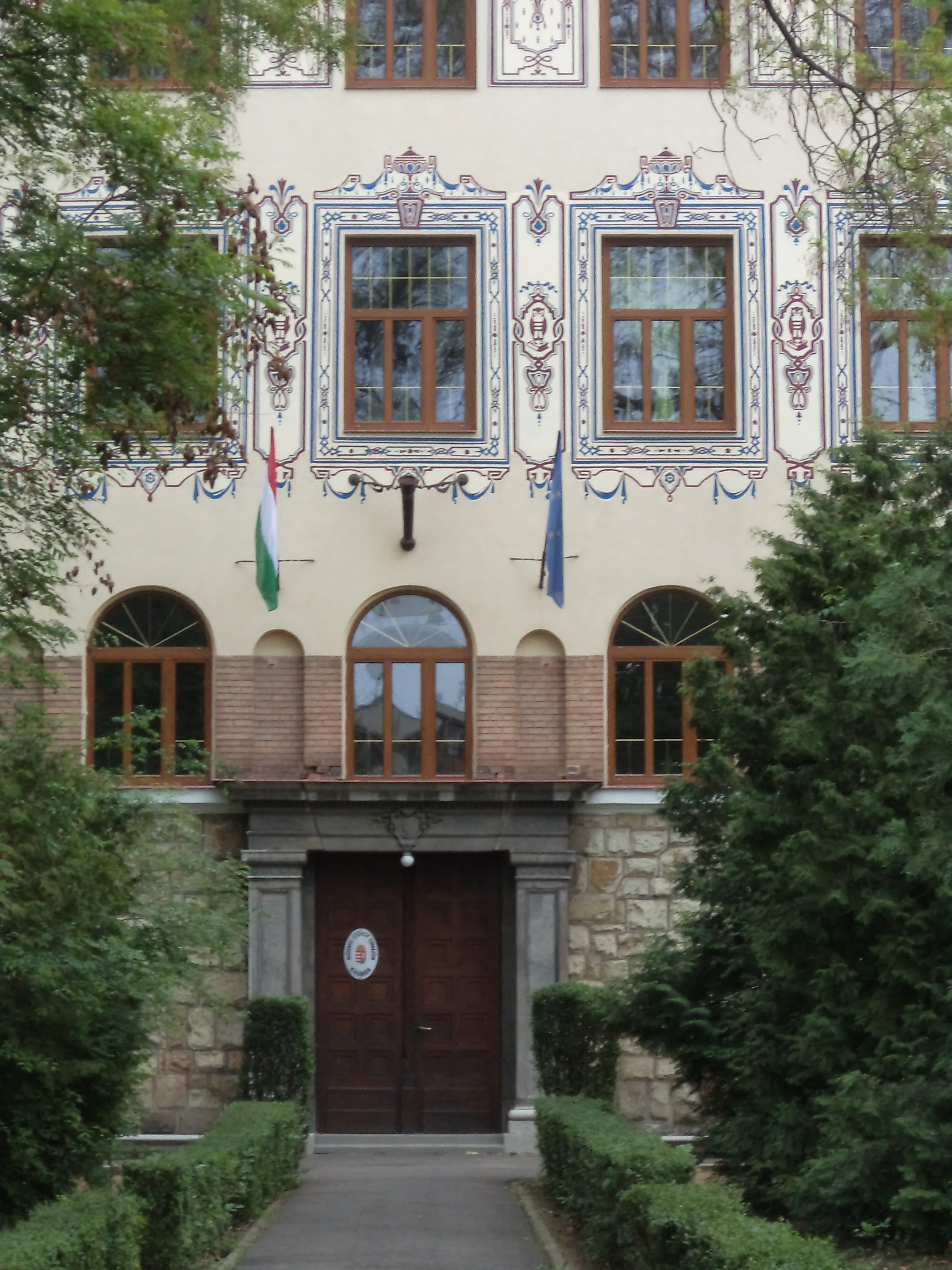 Bessenyei György High School, Kisvárda